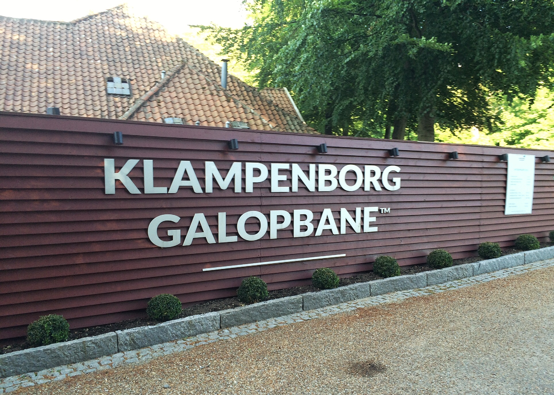 At the entrance at Klampenborg Galopbane, Racecourse